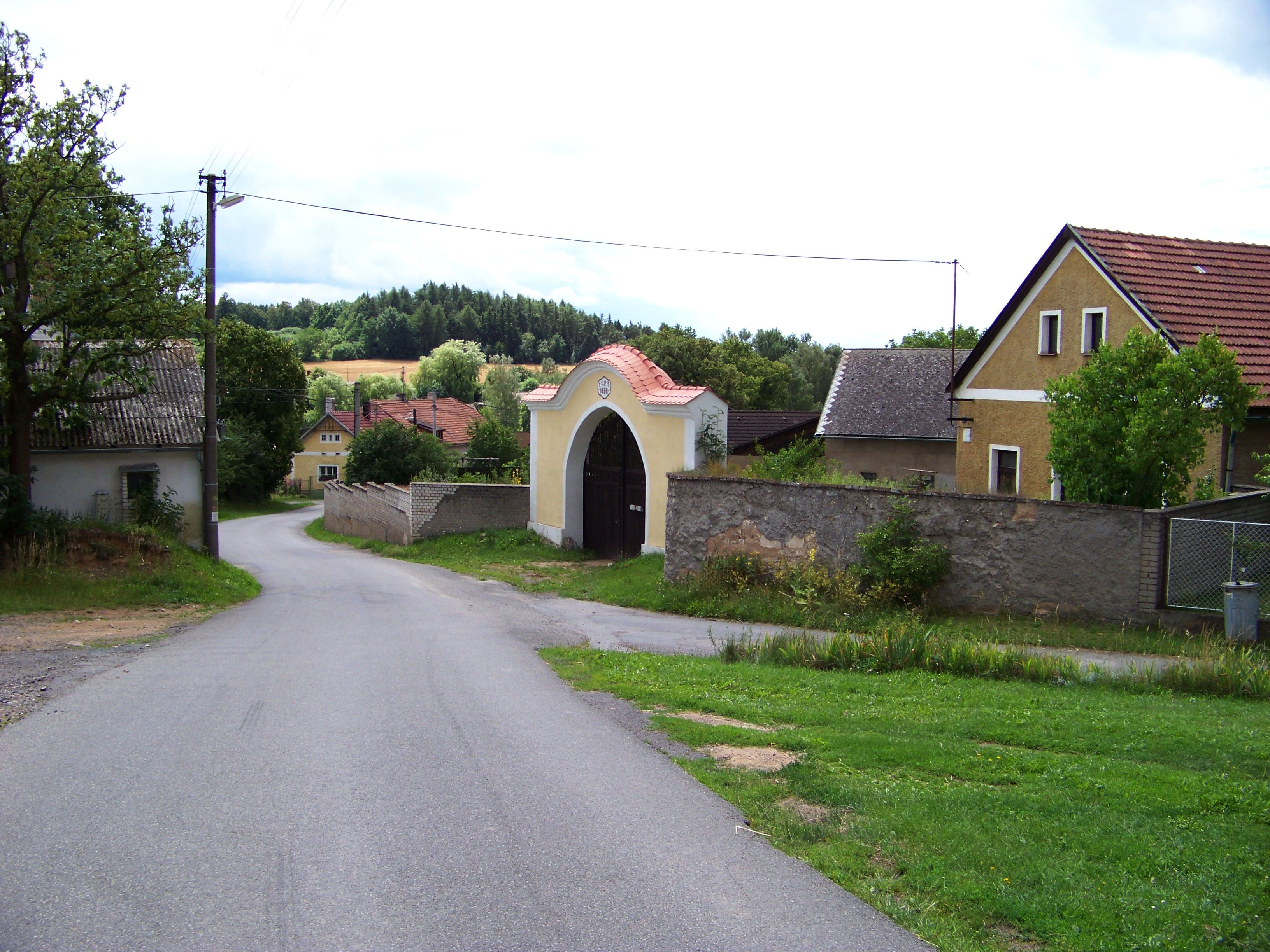 Milín-Konětopy, Příbram District, Central Bohemian Region, the Czech Republic. Road III/11815, house No. 8. - OpenStreetMap(Info)